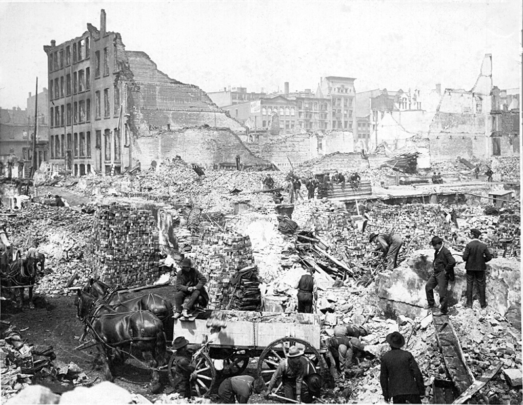 Front Street after the Toronto Fire of April 19, 1904. Archives of Ontario (I0006700) Photographer unknown Black and white print Edwin C. Guillet collection big/big_02_after.htm This photograph was created in Canada before 1949, and is thus in the public domain in Canada.